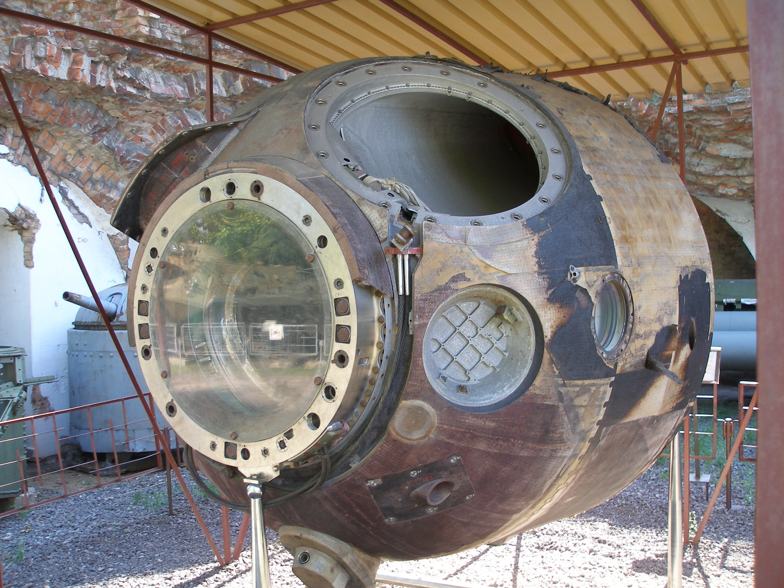 Soyuz 30 landing capsule